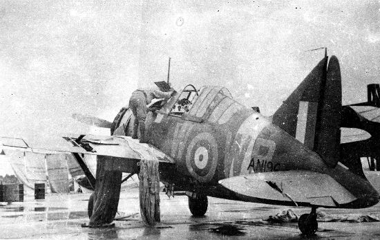 Catalog #: 00019172 Manufacturer: Brewster Designation: F2A Official Nickname: Buffalo Notes: Repository: San Diego Air and Space Museum Archive